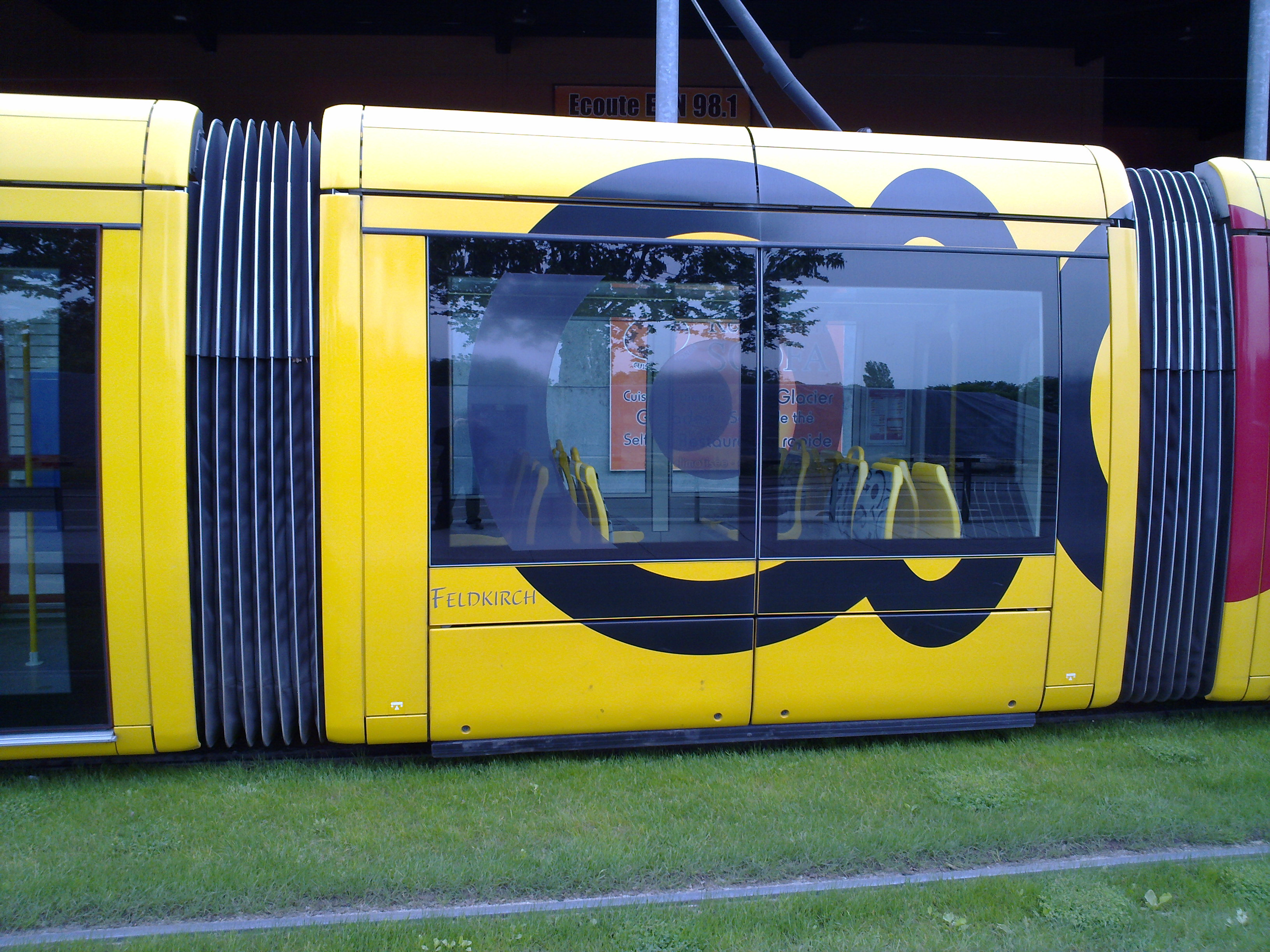 « Feldkirch » Citadis 302 number 2026 vehicle at "Nouveau Bassin" tram station of Mulhouse (line 2).